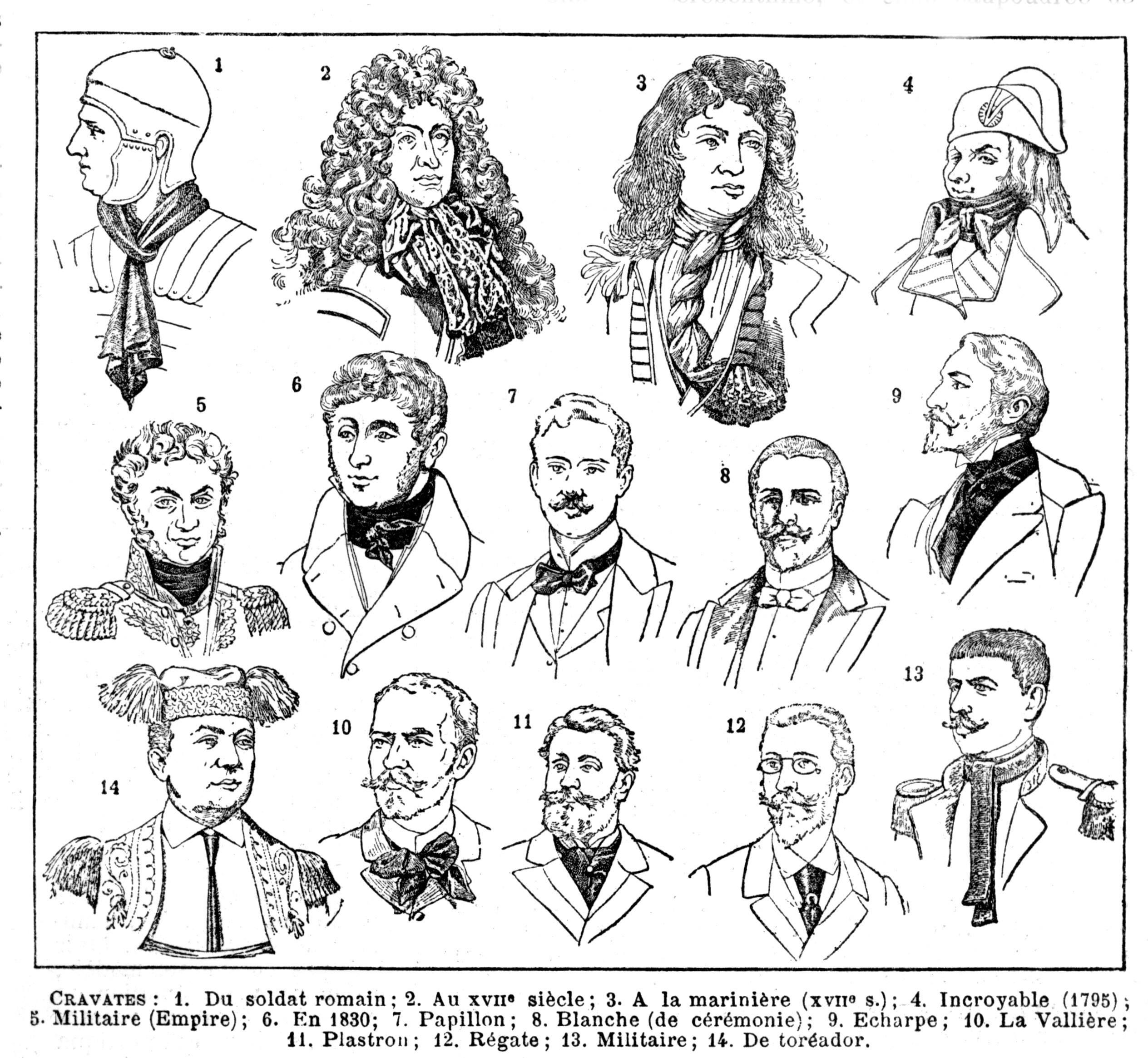 Historic neckties (cravate)